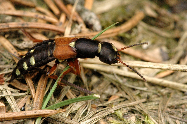 Picture taken in Commanster, Belgian High Ardennes . Species: Staphylinus erythropterus